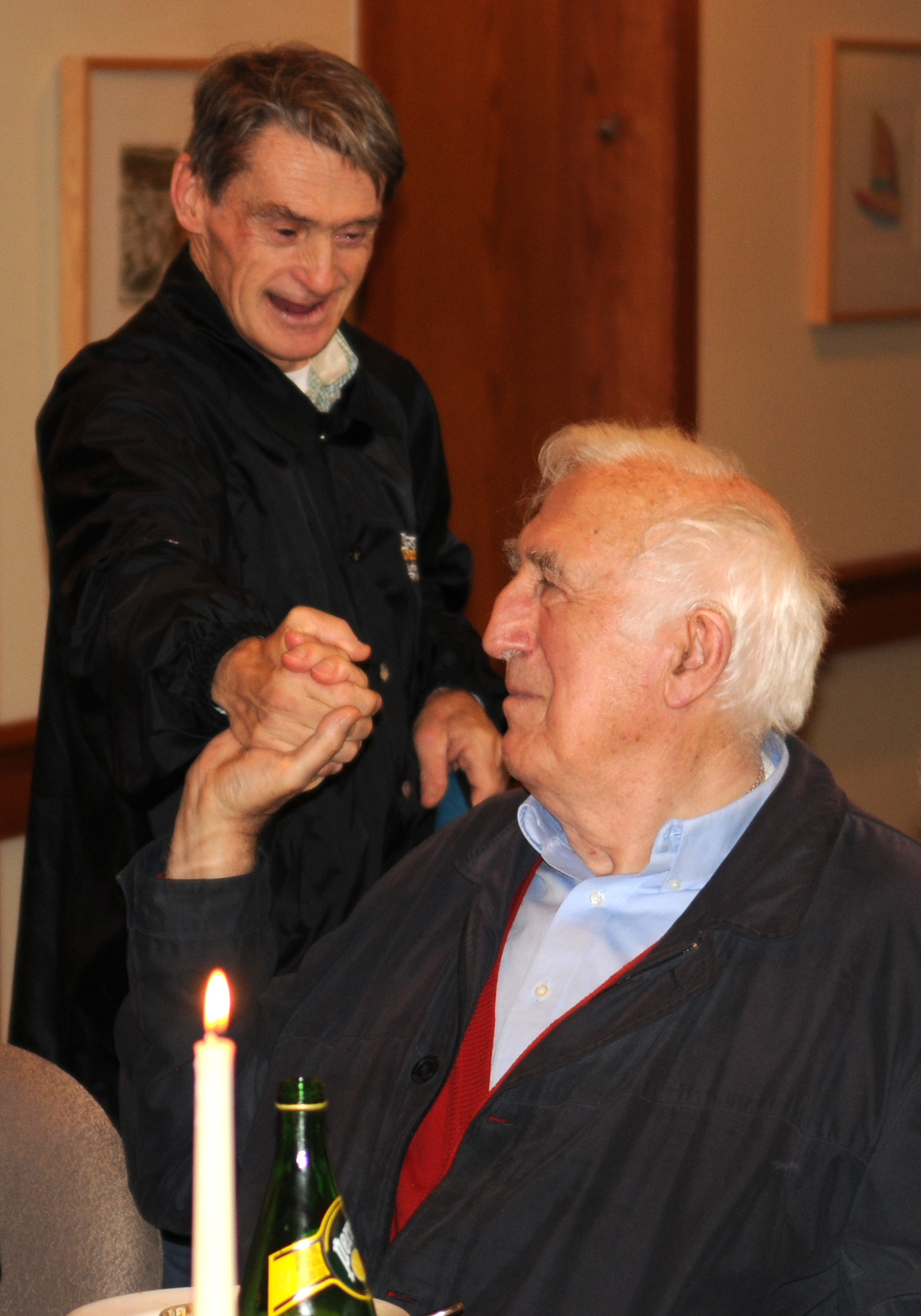 Jean Vanier shaking hands with one of the core members of L'Arche Daybreak, John Smeltzer.